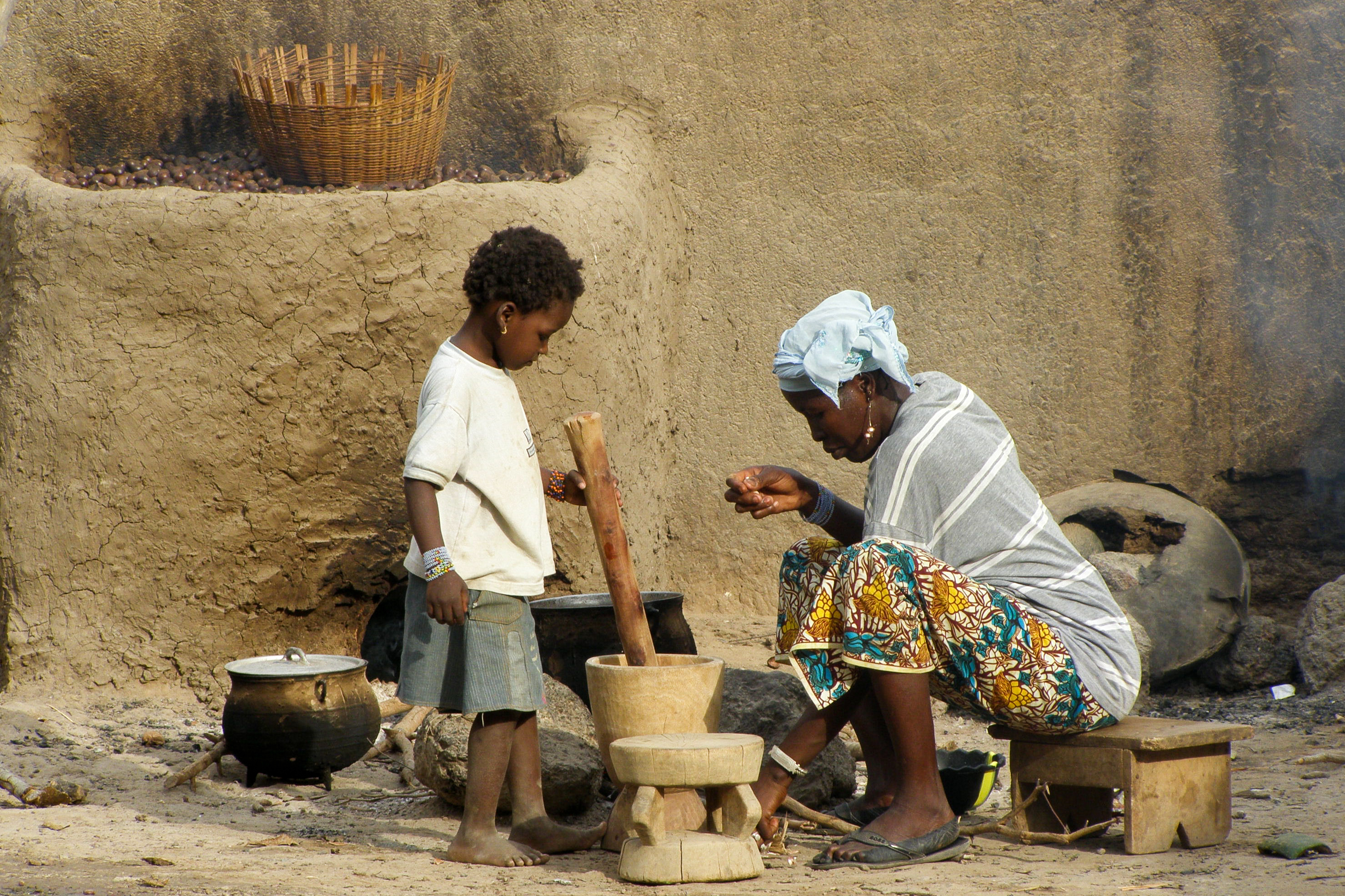 A woman and child cooking in Mali